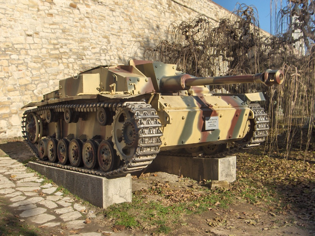 StuG III Ausf. F/8 (Sd.Kfz.142/1) at Belgrade Military Museum. Author - Slaven Radovic.